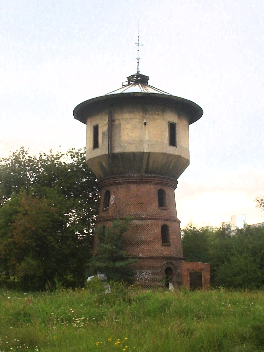 Water tower - Train station in Gostyń (Poland)